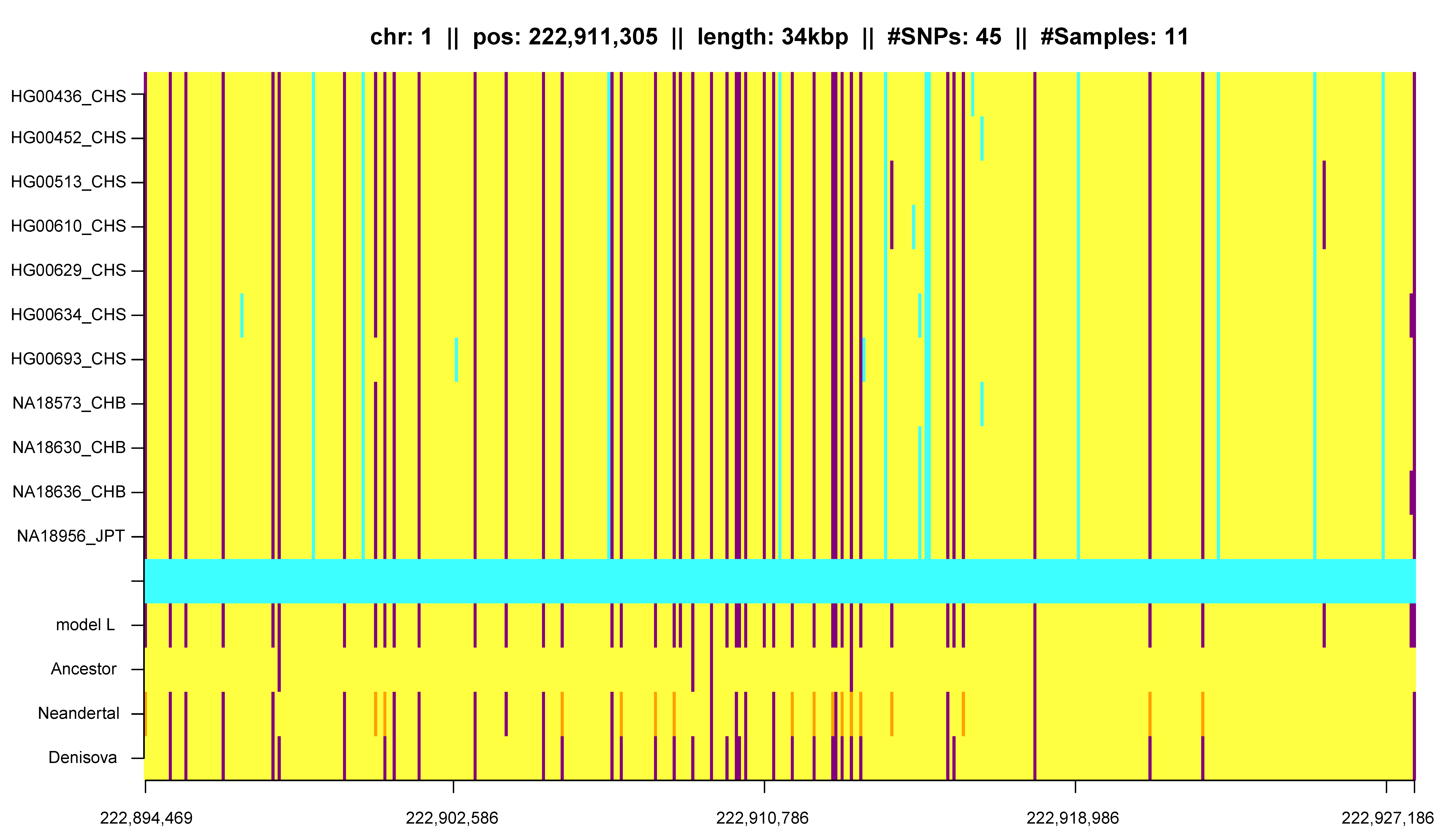 An IBD segment detected by HapFABIA matching the Denisova genome shared exclusively among Asians. The data analyzed by HapFABIA were phased genotypes from chromosome 1 of the 1000 Genomes Project. The rows denote all individuals that contain the IBD segment and columns consecutive SNVs. Major alleles are shown in yellow, minor alleles belonging to the IBD segment in purple, and other minor alleles in turquoise. The row labeled "model L" indicates rare SNVs that tag the IBD segment (tagSNVs). The rows "Ancestor", "Neandertal", and "Denisova" show bases of the respective genomes in purple if they match the minor allele of the tagSNVs (in yellow otherwise). Neandertal tagSNV bases that are not called are shown in orange.